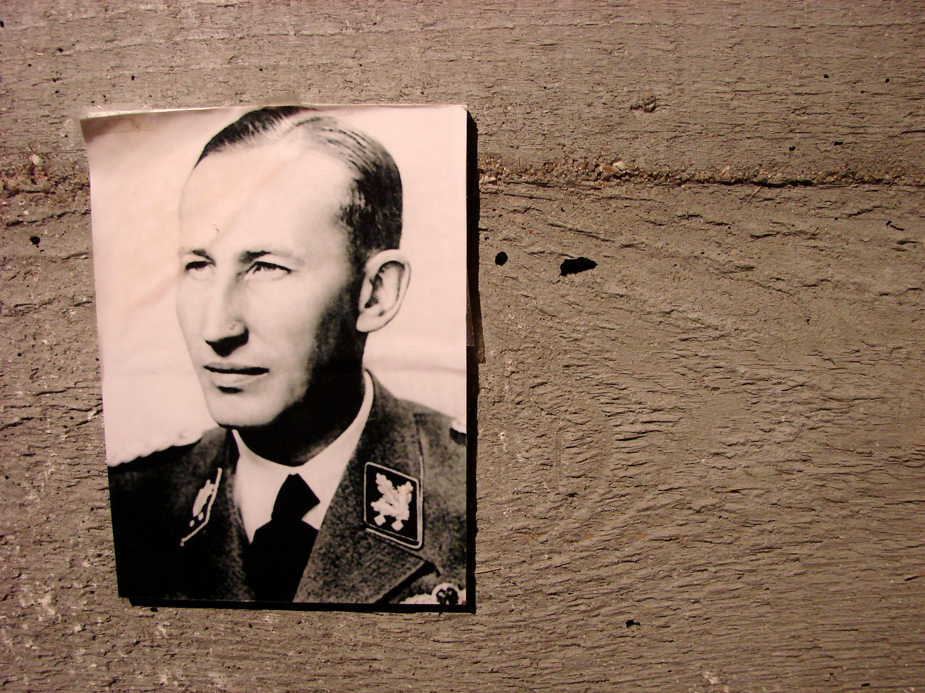 Lidice Memorial - Image of Reinhard Heydrich - Nazi Mass Murderer - Near Prague - Czech Republic